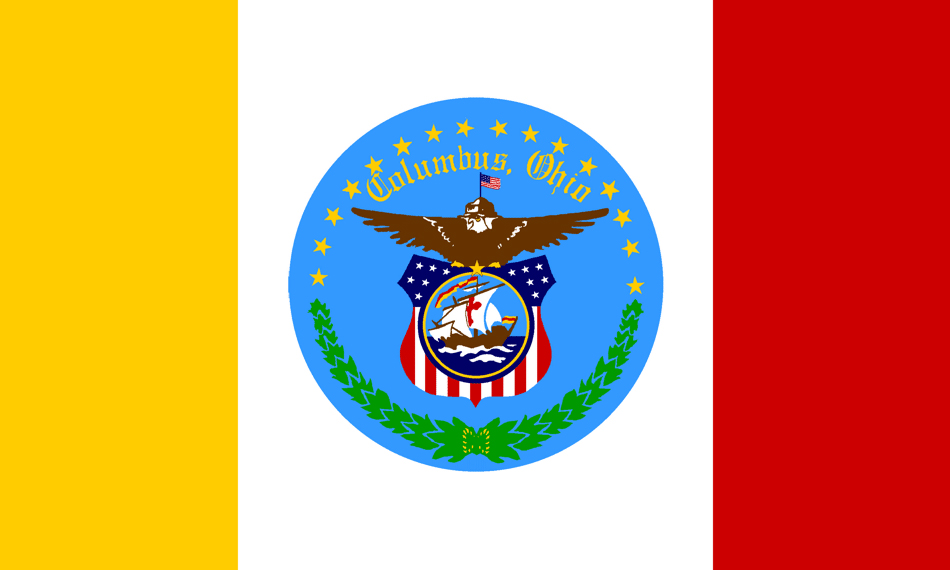 Flag of the city of Columbus, Ohio, USA. Based upon File:Columbus city seal n6168.svg.